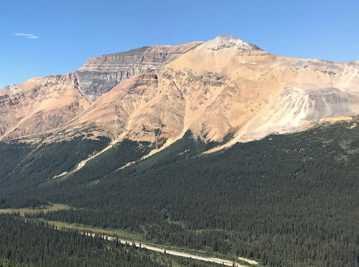 Observation Peak, Banff National Park, Canada